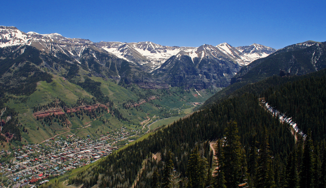 Telluride, CO from a gondola.